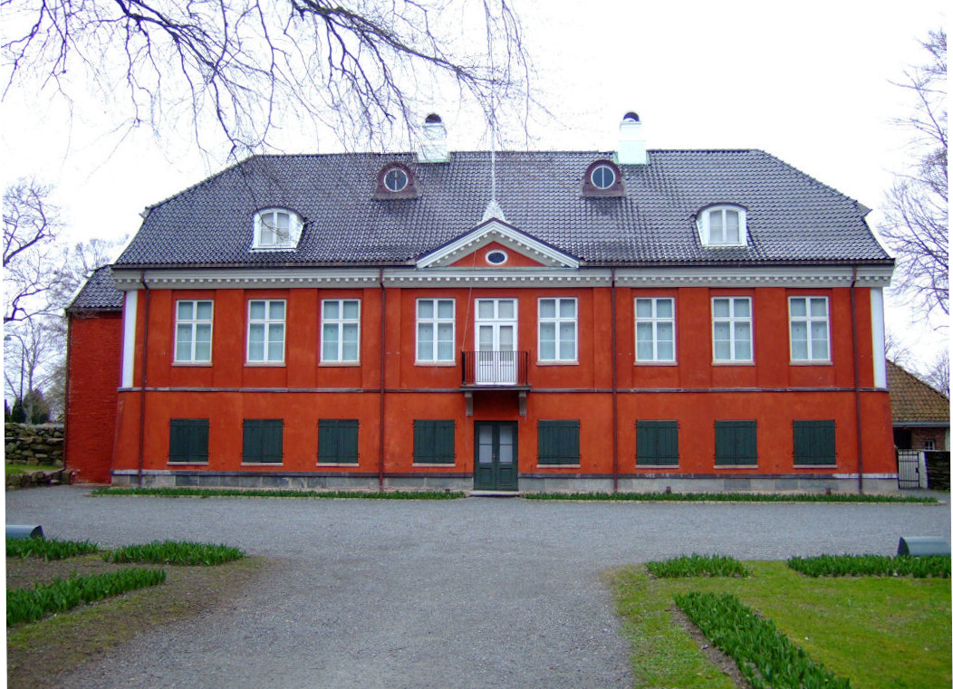 Ledaal House. Museum and King’s residence